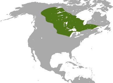 Arctic Shrew (Sorex arcticus) range